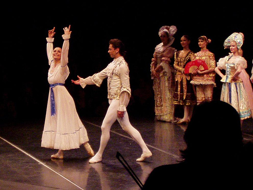 Anna Podlesnaya and Andrei Stelmakhov at the end of the Nutcracker performed by the St. Petersburg Ballet Theatre during their European tour at the Chichester Festival Theatre 03 Nov 2007.